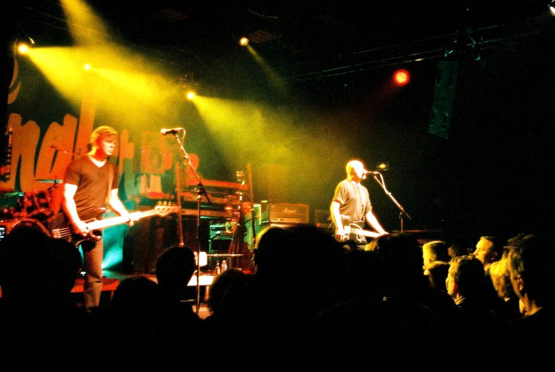 The Stranglers @ Big Band Cafe - Herouville-Saint-Clair